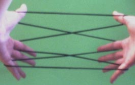 String figure opening position known as Opening A. Photographed by User:Myriamn